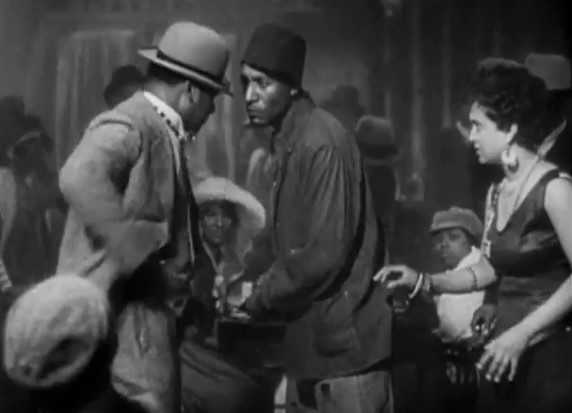 L. to R. : William Fountaine, Daniel L. Haynes & Nina Mae McKinney in Hallelujah - trailer (cropped screenshot)